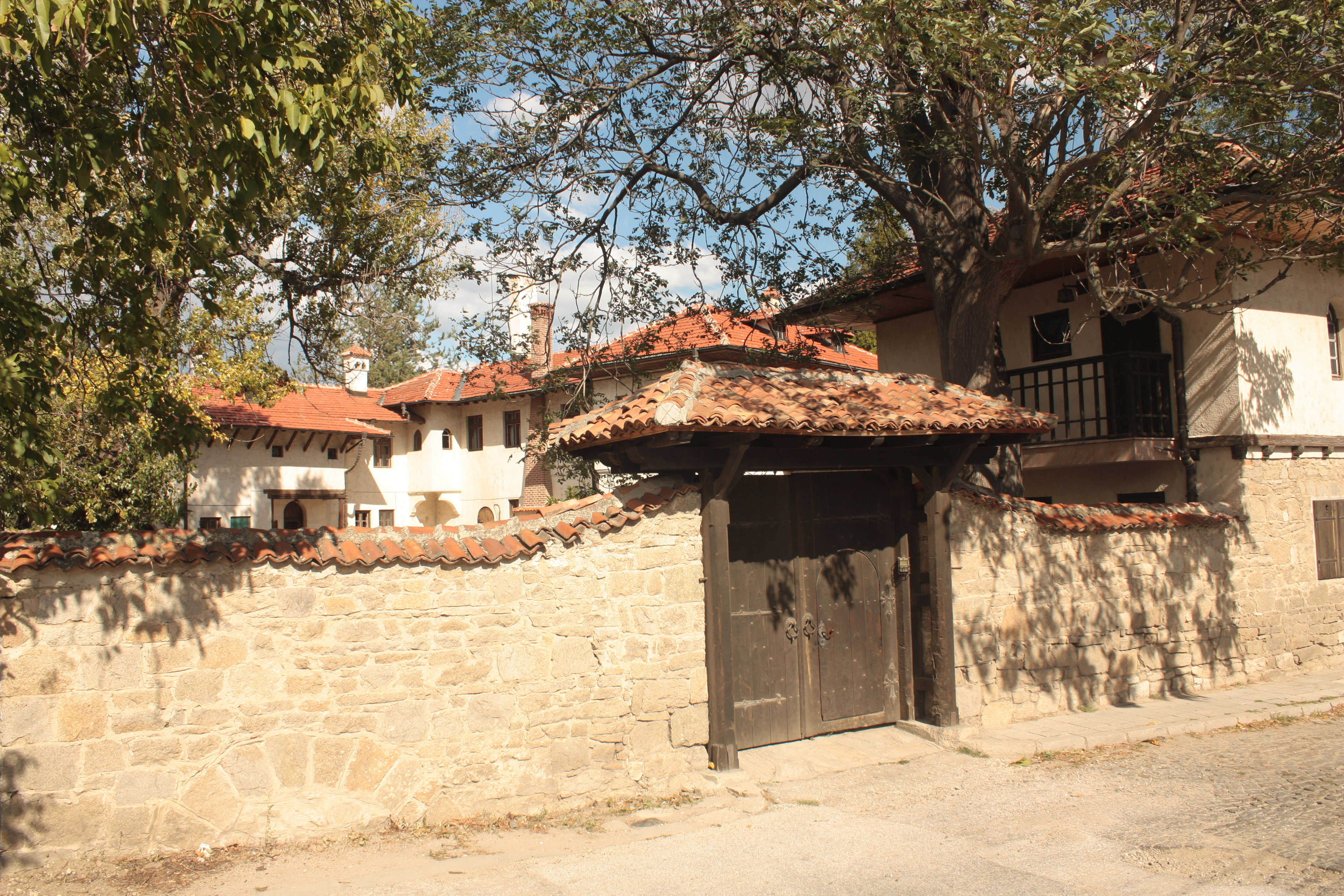 Royal Vila in Banya